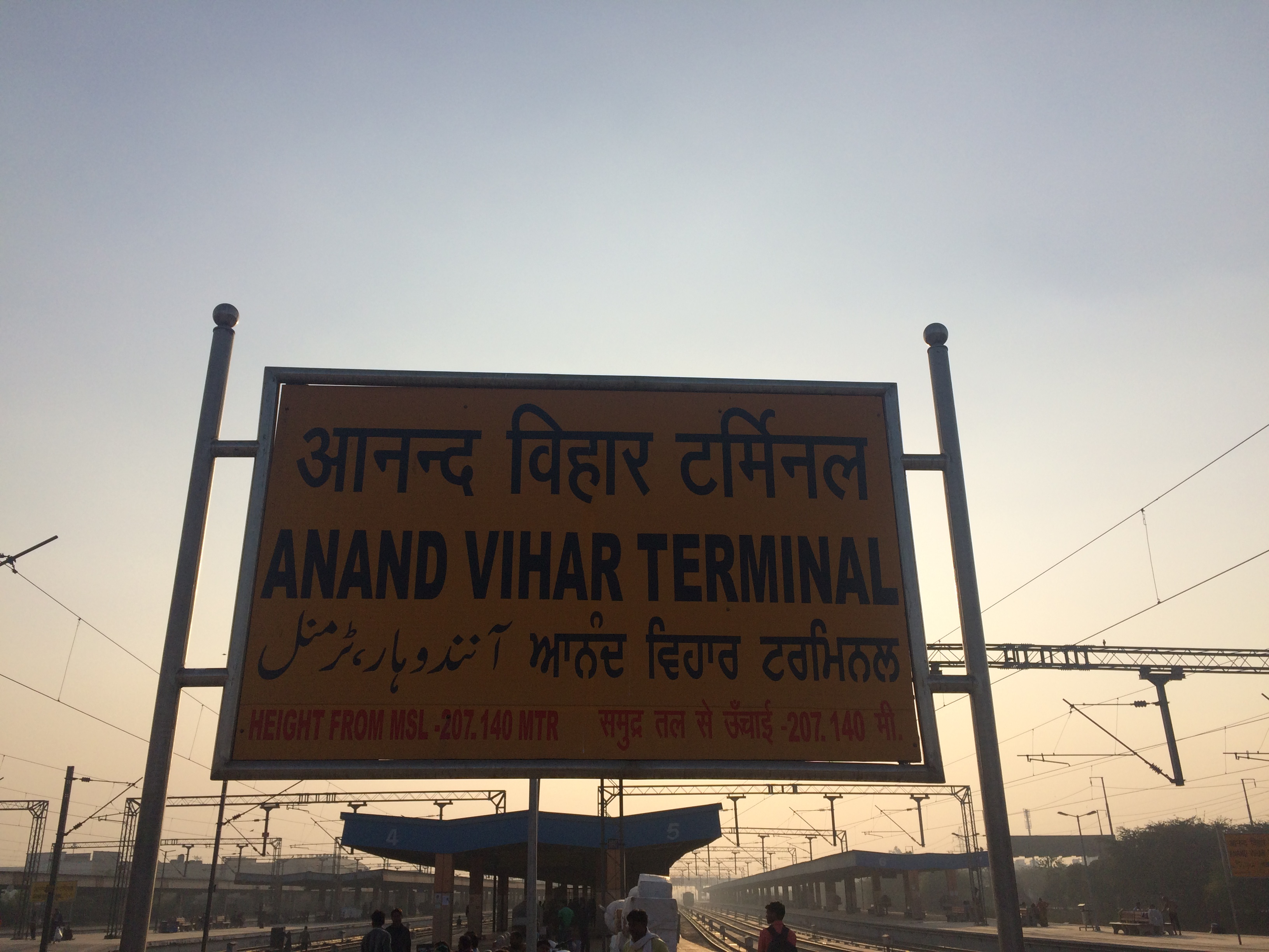 Anand Vihar Terminal - Stationboard